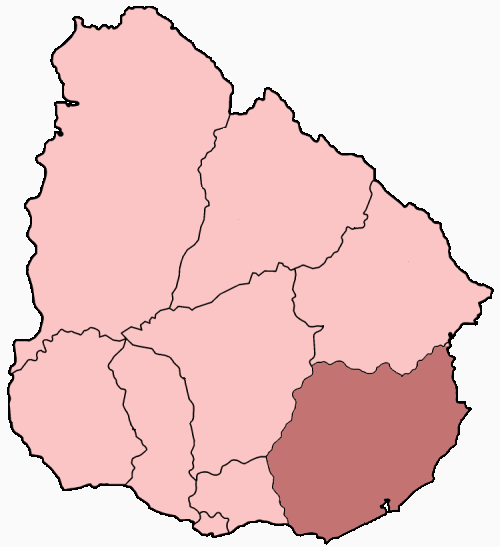 Map of Roman Catholic Diocese of Maldonado-Punta del Este-Minas erected on March 2, 2020 for the amalgamation of the dioceses of Maldonado-Punta del Este and Minas